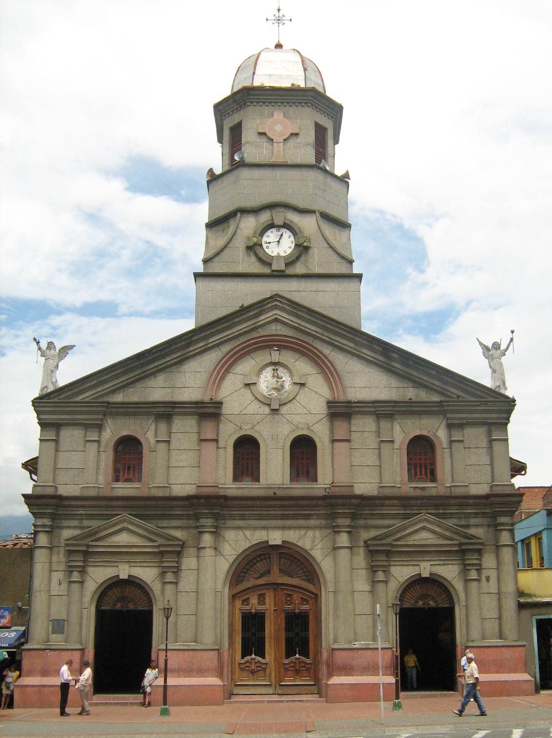 Iglesia Nuestra Señora del Rosario en Itagüí. Colombia.